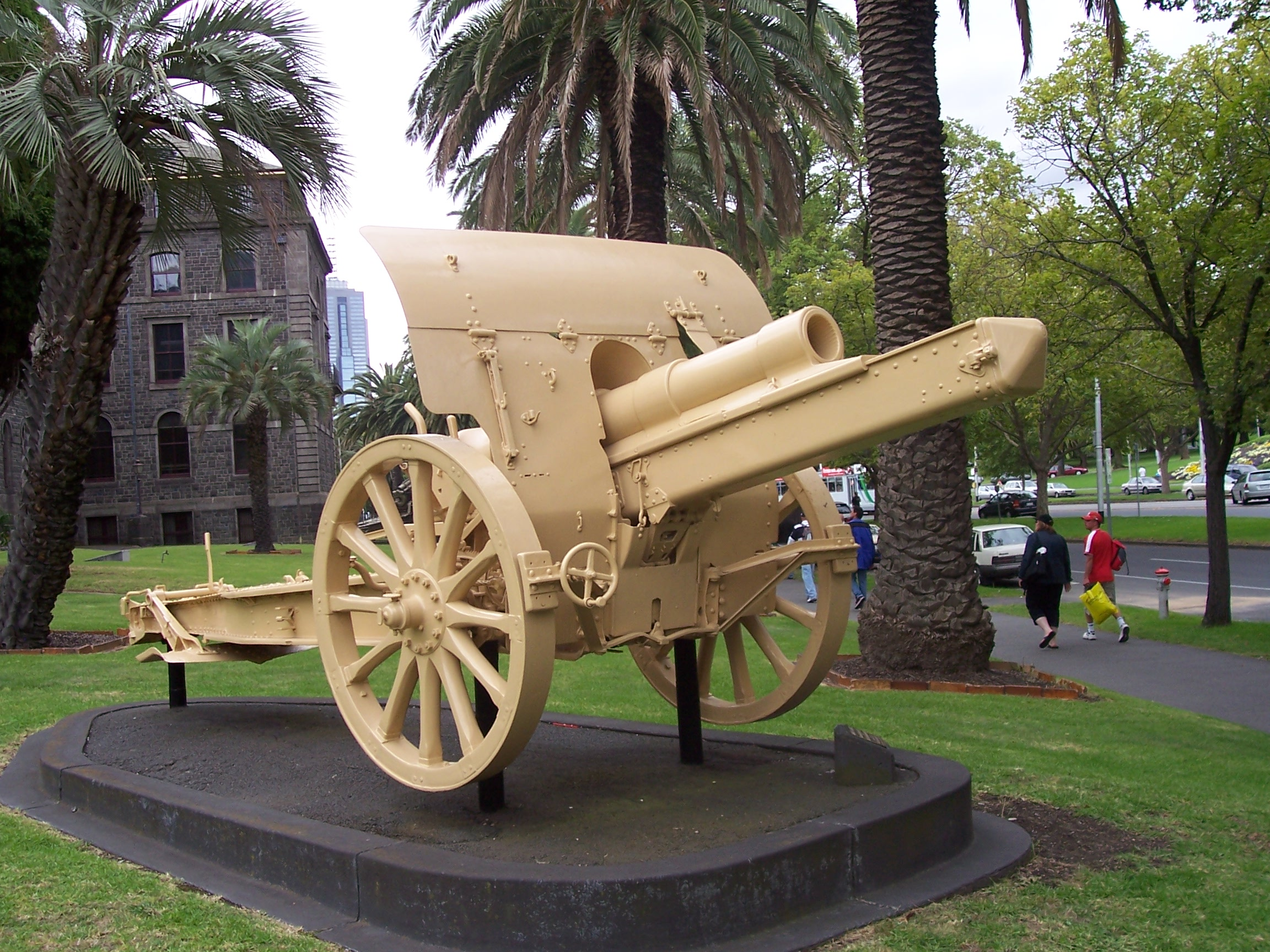 Turkish Howitzer displayed outside Victoria Barracks, Melbourne, Australia. A plaque alongside the gun reads: "Turkish 5.9 Inch Howitzer captured on 8th November 1917 by the Australian Mounted Division near Huj during the offensive against the Gaza-Beersheba Line which culminated in the occupation of Jerusalem".